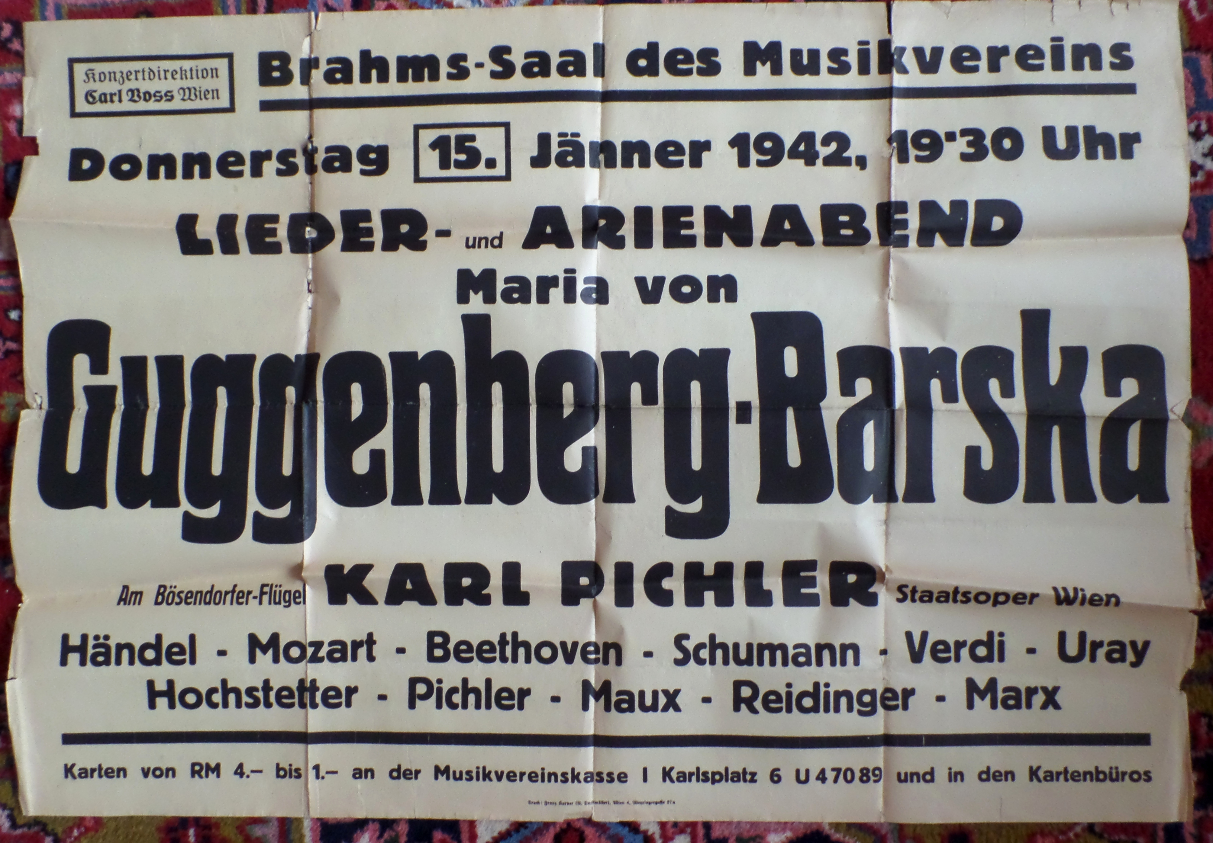 Plakat Musikverein Wien, 15 January 1942, of a recital by Maria von Guggenberg-Barska